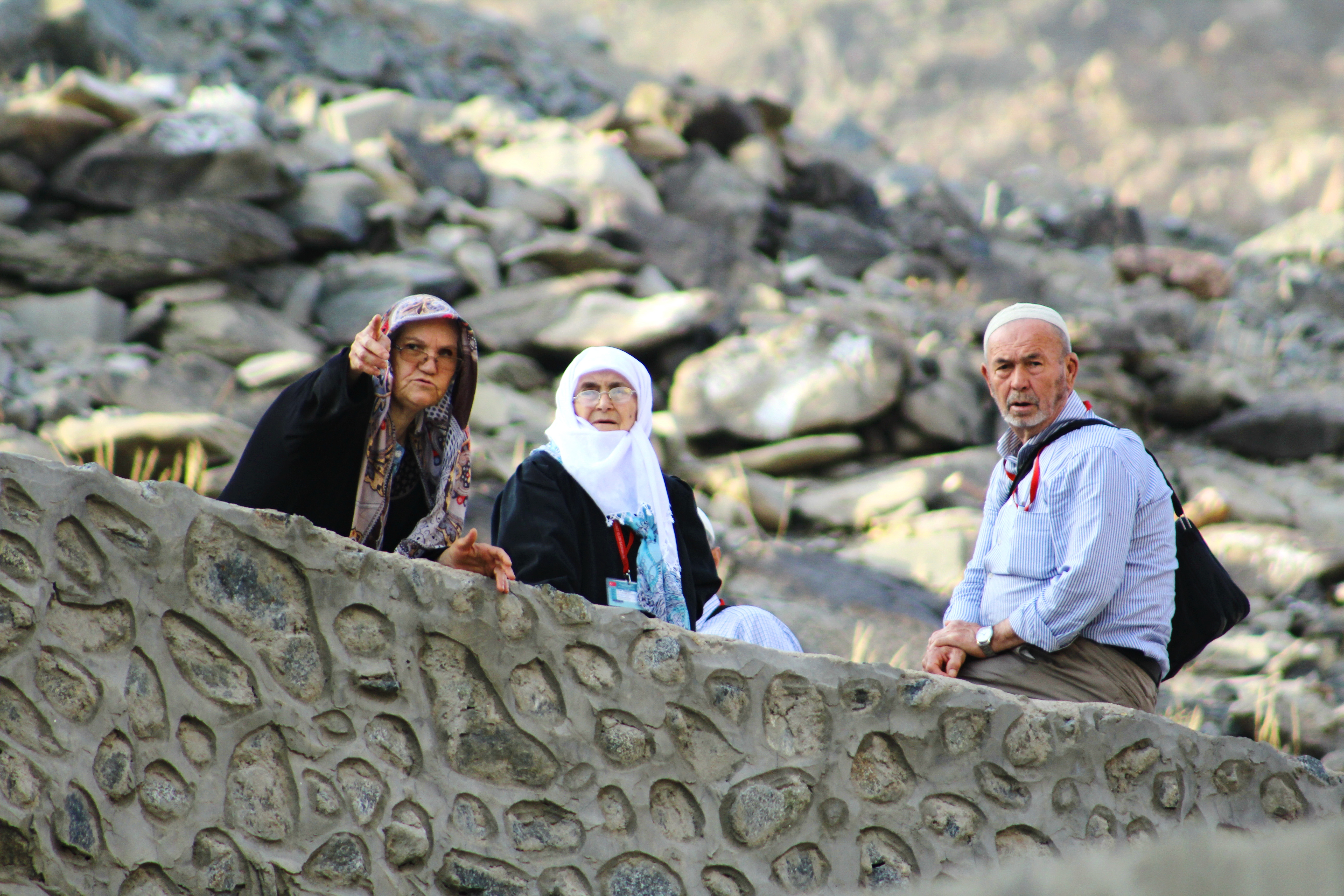 Turkish pilgrims, visiting Saudi Arabia to perform Umrah, are seen at the valley of Jabal Thawr. A part of tourism in Saudi Arabia consists of pilgrims visiting holy sites for their historic significance rather than any religious obligation.